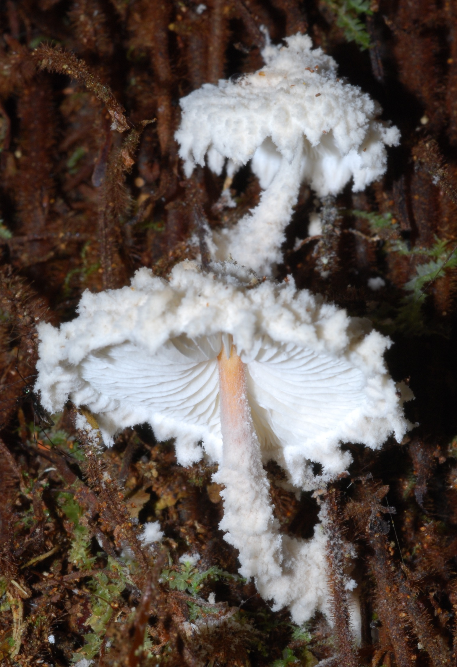 Cystolepiota sp. Location: Kaipara harbour, Auckland, New Zealand. Notes: Fruiting directly from the base of a native New Zealand tree fern, (Dicksonia fibrosa).